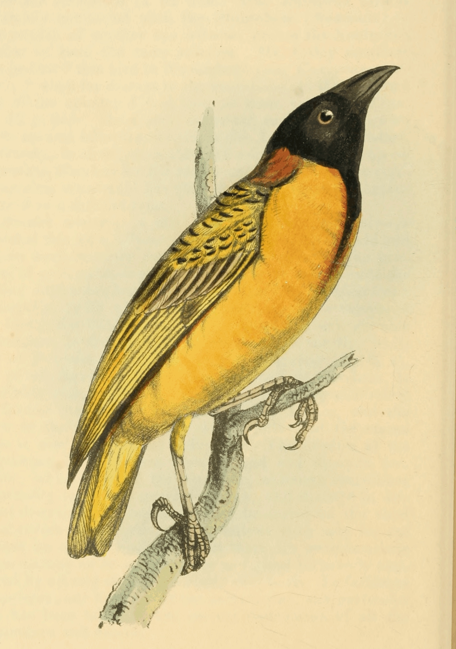 Plate from Zoological illustrations, Volume 1, 2nd series. Ploceus Textor Cuvier. Accepted as Ploceus cucullatus(?)